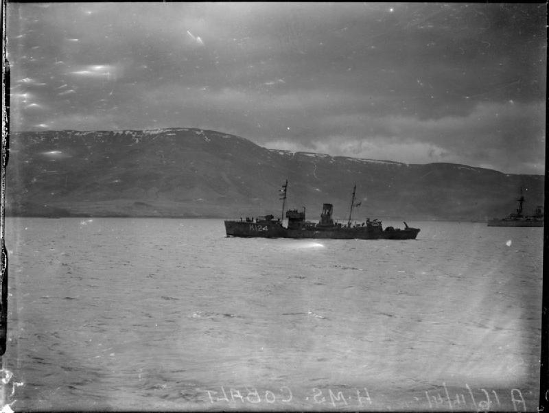 On Board HMS Victorious. 16 and 17 November 1941, at Hvalfjord, Iceland. The corvette HMCS COBALT leaving Hvalfjord.